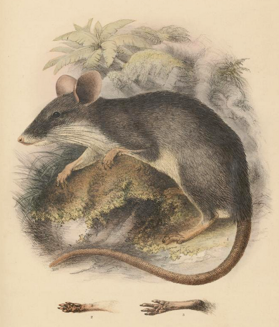 Illustration from article: Saughetier vom Celebes und Philippinen Archipel